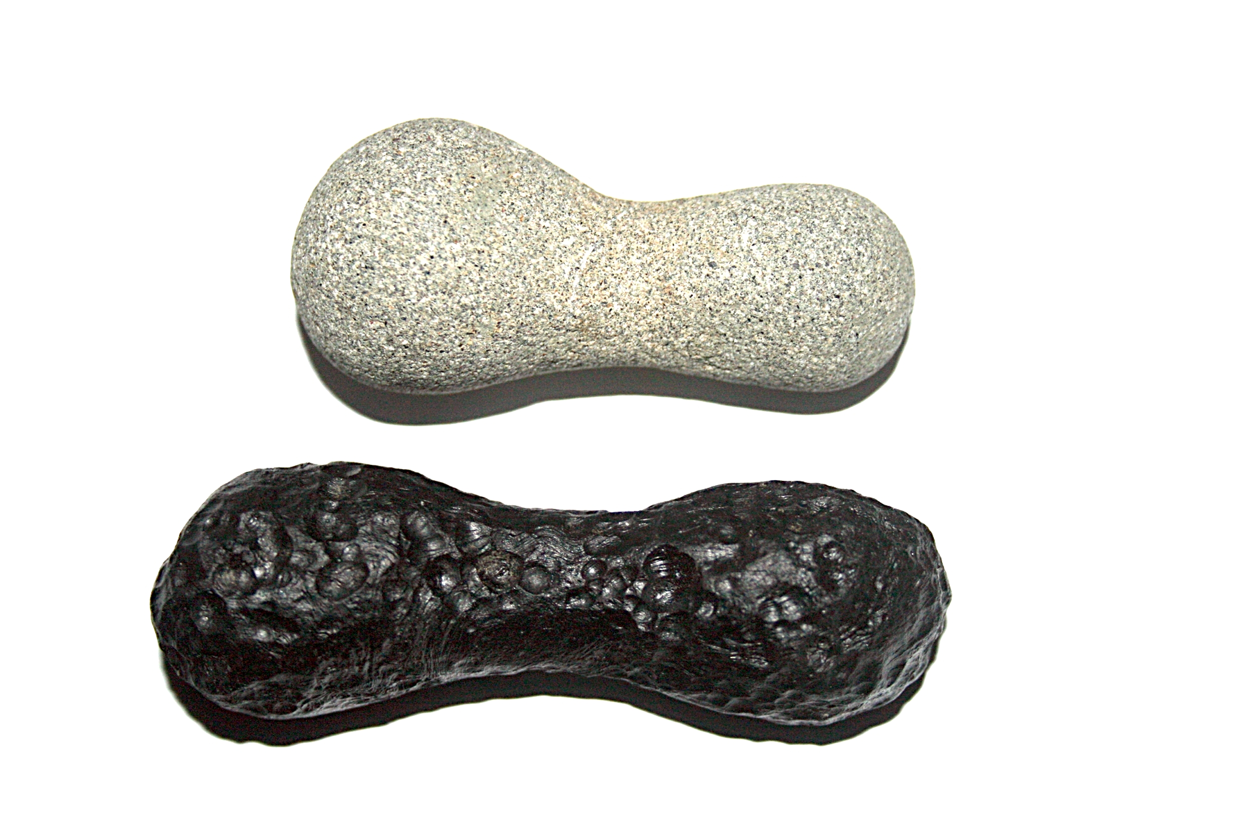 Tektite and Sandstoneconcretion demonstrate the same shape: dumbbell. Was this concretion formed around a Tektite?